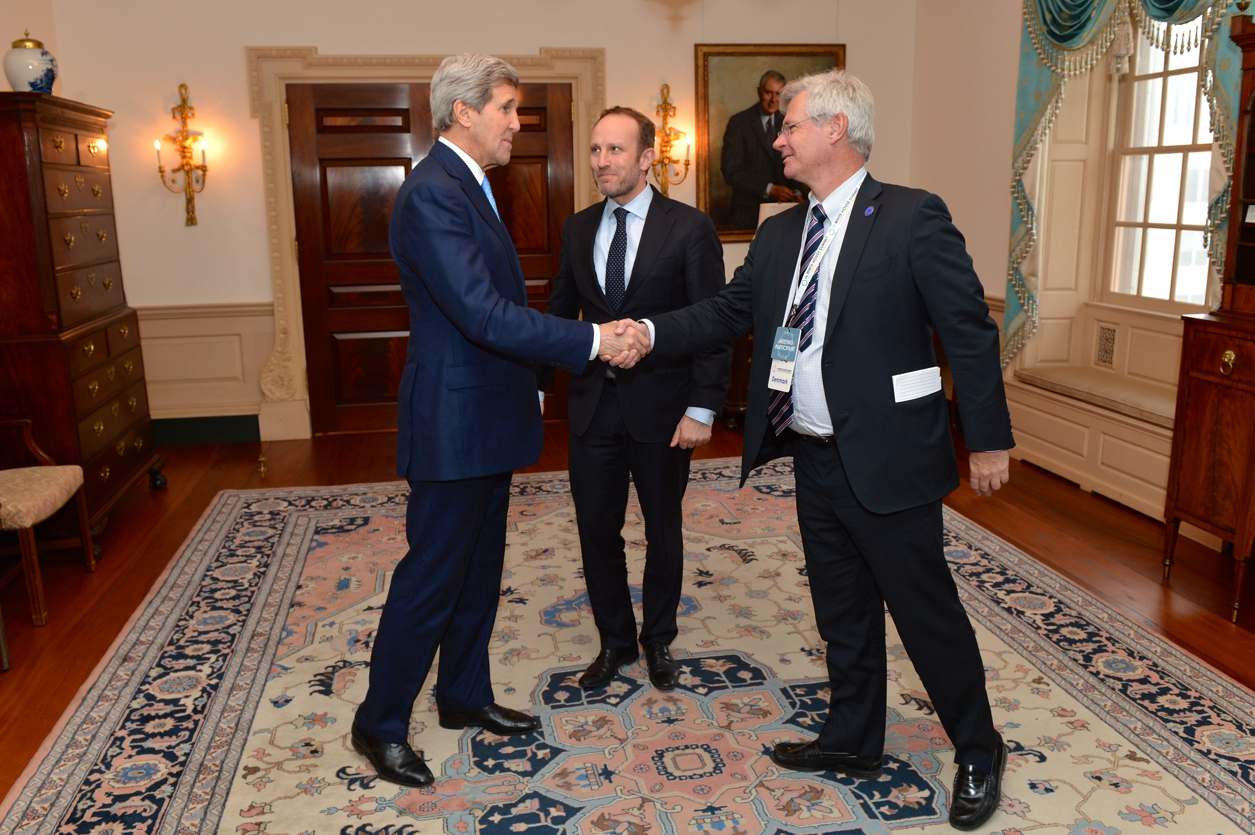 With Danish Foreign Minister Martin Lidegaard looking on, U.S. Secretary of State John Kerry greets Danish Ambassador to the U.S. Peter Taksøe-Jensen before their meeting on the margins of the White House Summit to Counter Violent Extremism at the U.S. Department of State in Washington, D.C., on February 19, 2015. [State Department photo/ Public Domain]